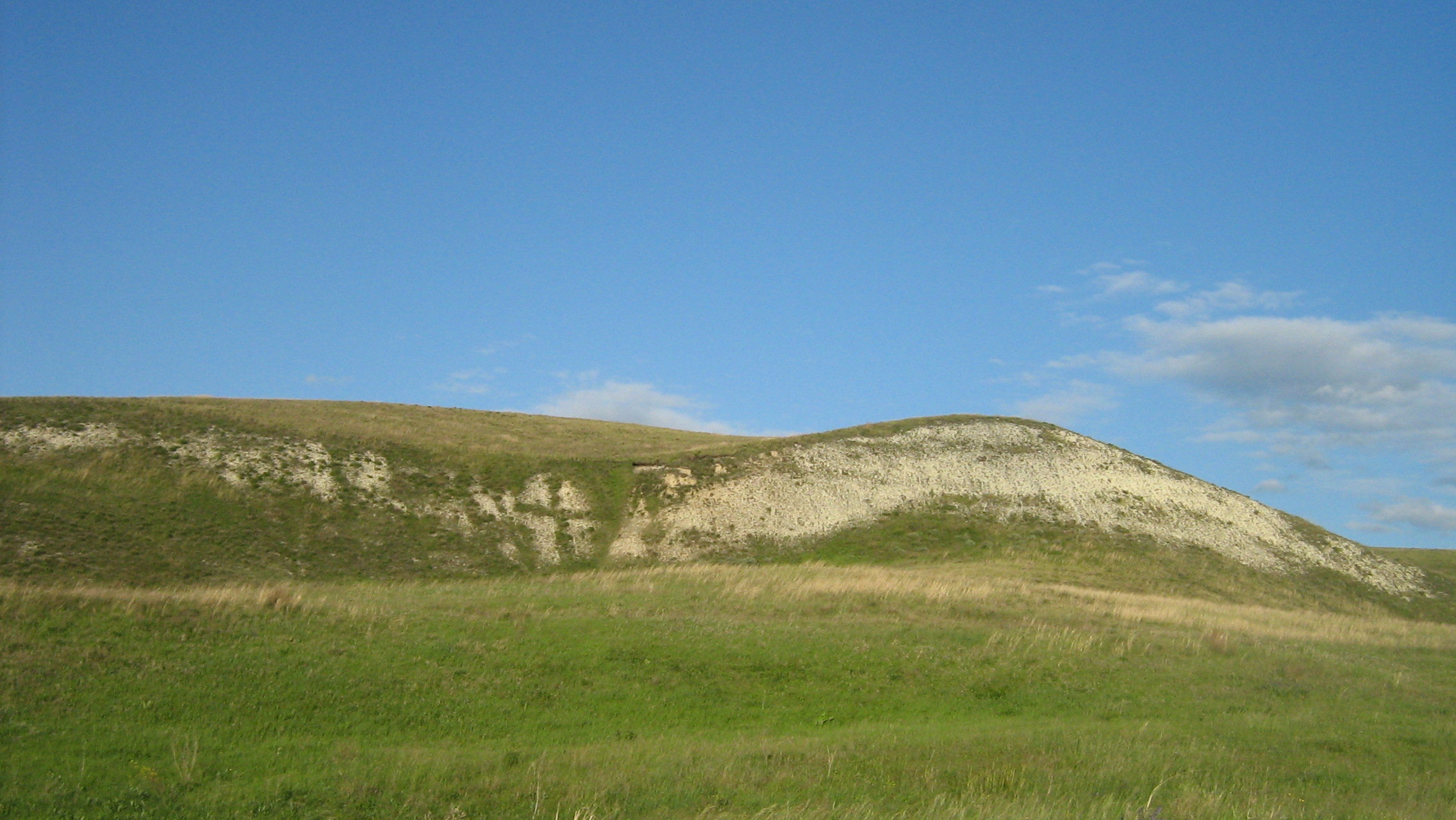 Kotyakovo, mountain views Semishnoy